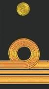 Lieutenant Commander Pakistan Navy Insignia